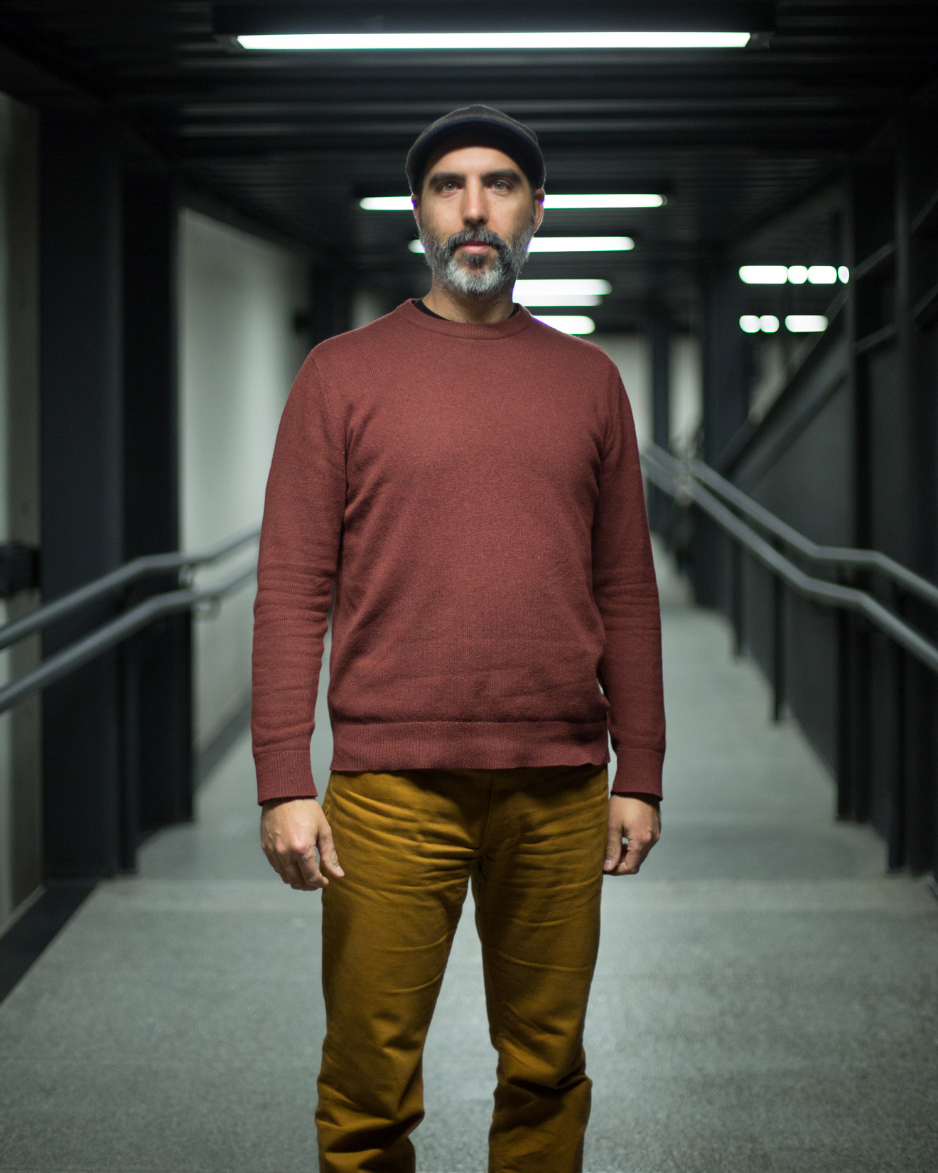 Jeff Silva on the workshop "Sensory landscapes". Center for Digital Culture, Mexico, 11 February, 2015. Picture by Delia Martinez for Ambulante Festival.